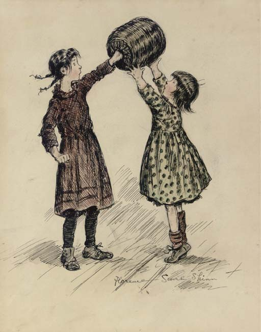 „Lemme hold the muff“ cried Australia. „No, me-me!“ shrieked Europena.. Original illustration for the first illustrated edition of Alice Caldwell Hegan's Mrs. Wiggs of the Cabbage Patch. Pen-and-ink with color wash drawing on paper. Image size: 9½ x 7¾ inches.